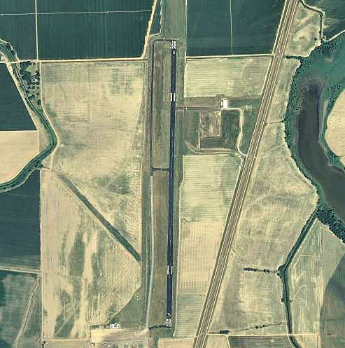 USGS digital orthophoto of Fletcher Field Airport in Mississippi